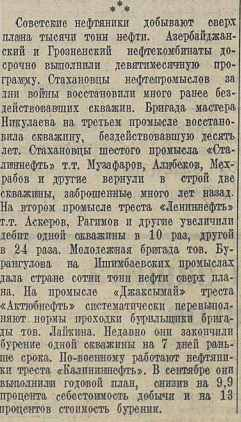 news of the oil industry in Azerbaijan, Bashkiria